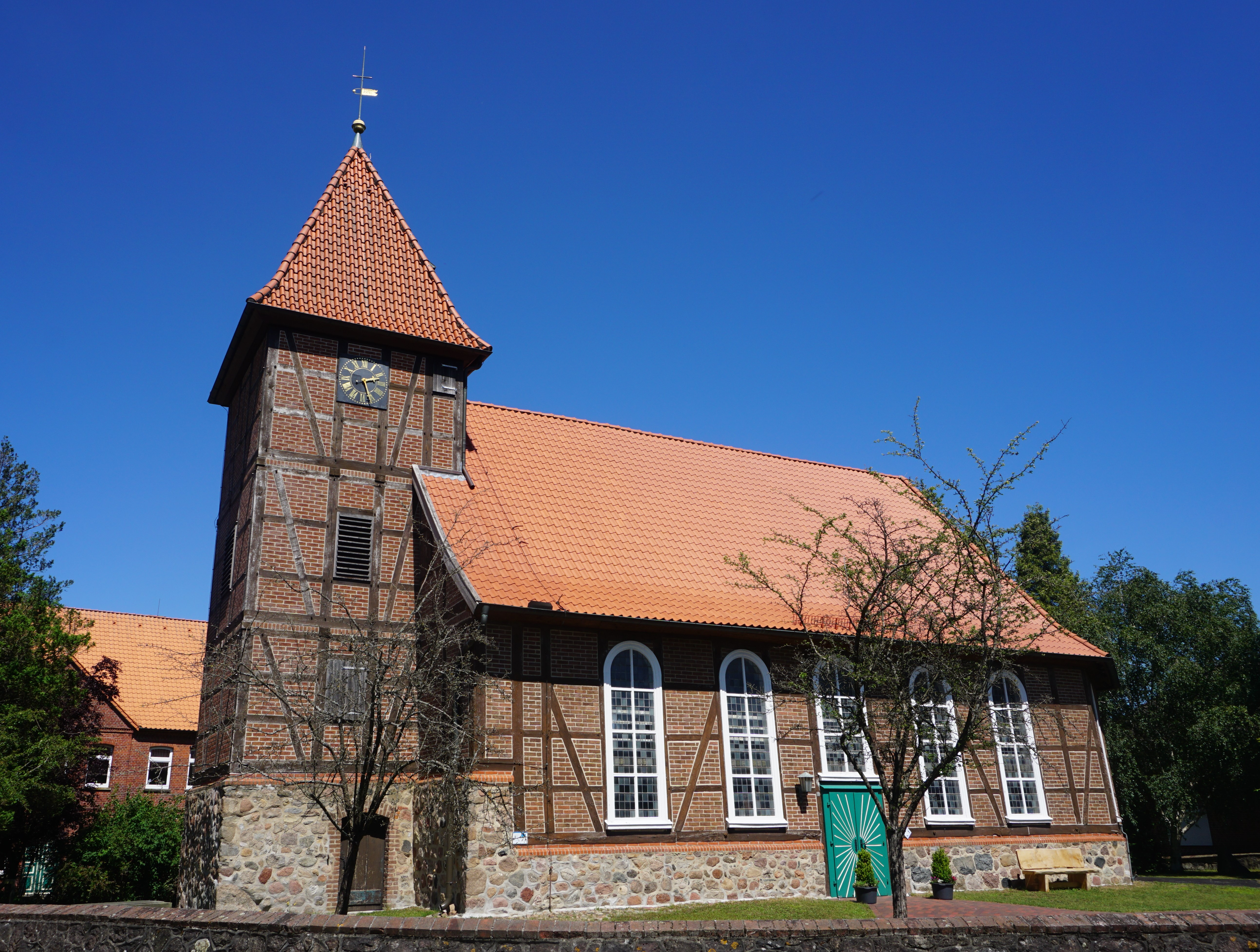 View from the south to the Saint Lambert's church in Nahrendorf, district of Lüneburg